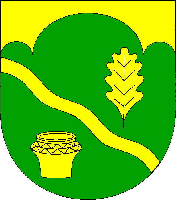 Coat of arms of the municipality Bargstall in Schleswig-Holstein, Germany.